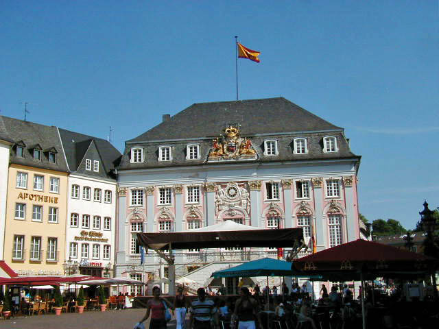 Historic Town Hall of Bonn (view from the market square).